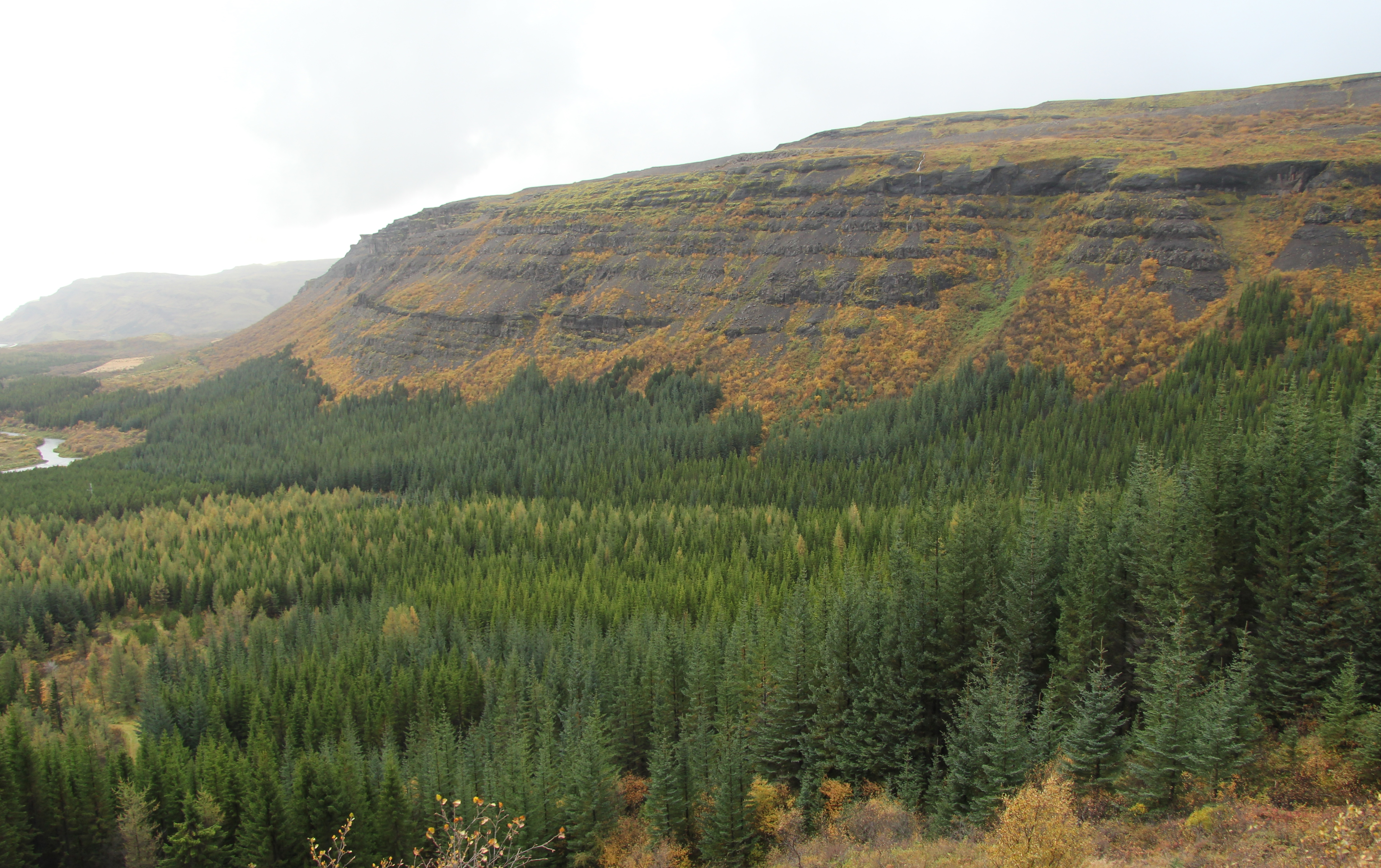 Mixed stands of sitka spruce, Norway spruce, lodgepole pine and siberian larch in the national forest of Thjórsárdalur South Iceland.